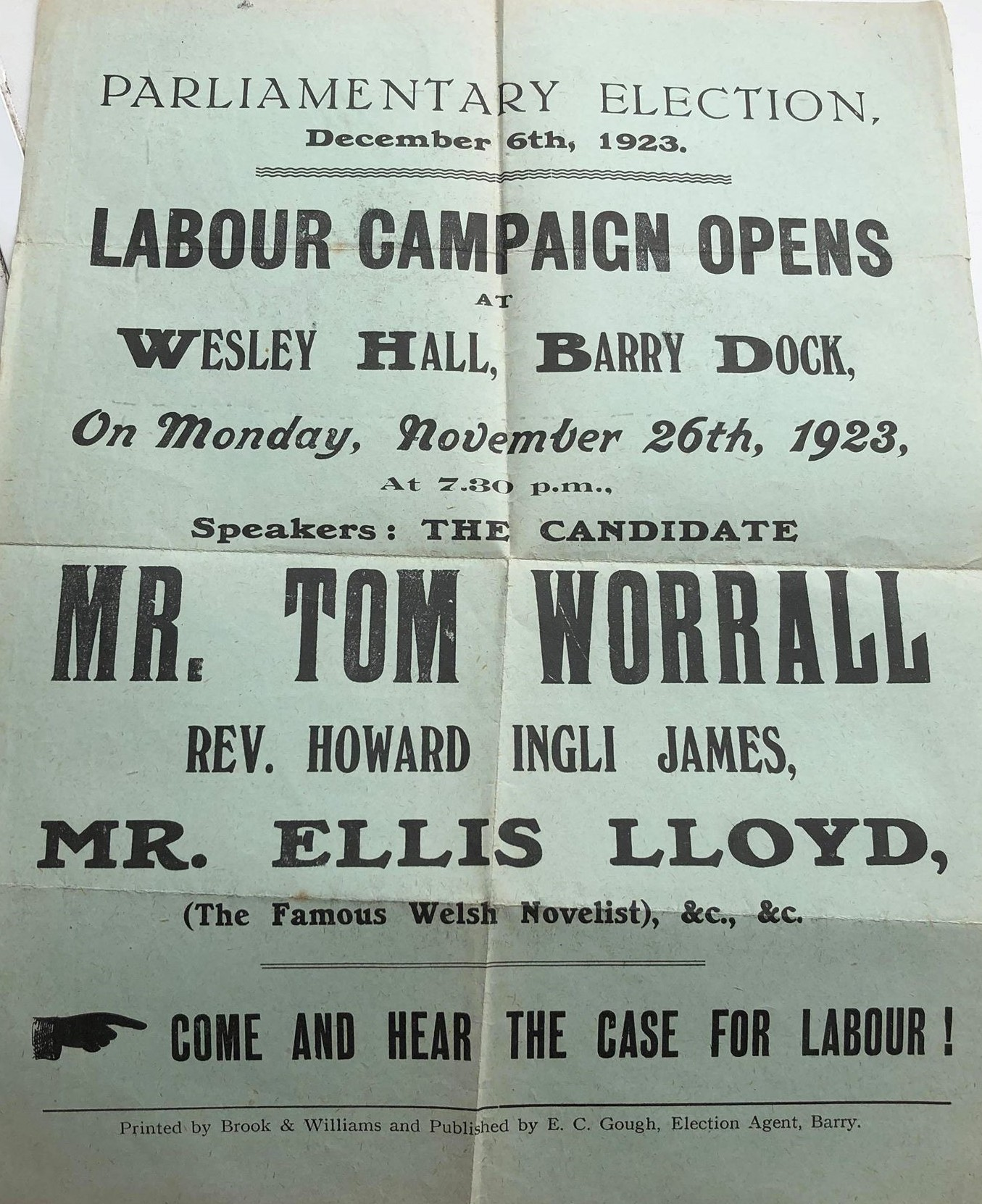 One of Worrall's election posters from the 1923 general election. Tom Worrall's name features prominently, as well as the names of two of his supporters. Worrall is shown to be the Labour Party candidate